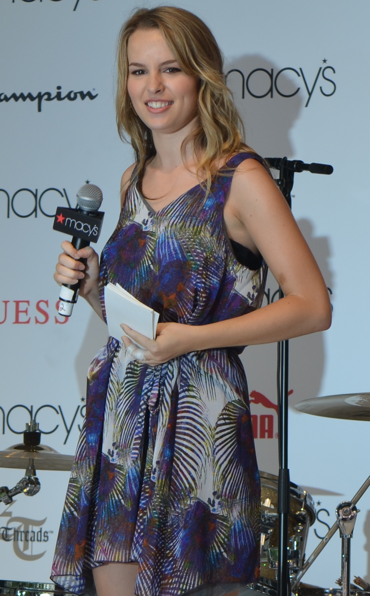 Bridgit Mendler at Macy's Annual Summer Blowout event in Herald Square, New York City, in July 2011